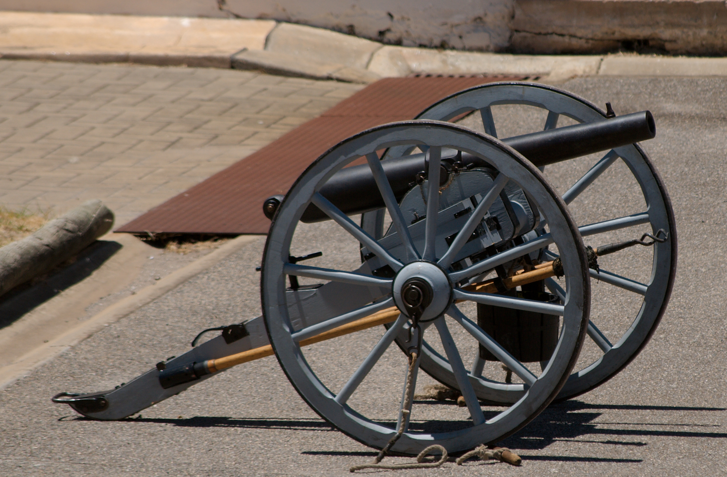 1867 Whitworth 2 pounder rifled muzzle loading "mountain" gun at Fort Glanville, South Australia. Formerly a signal gun at Fort Largs, South Australia Possibly only 1 of 2 of this model in existence.